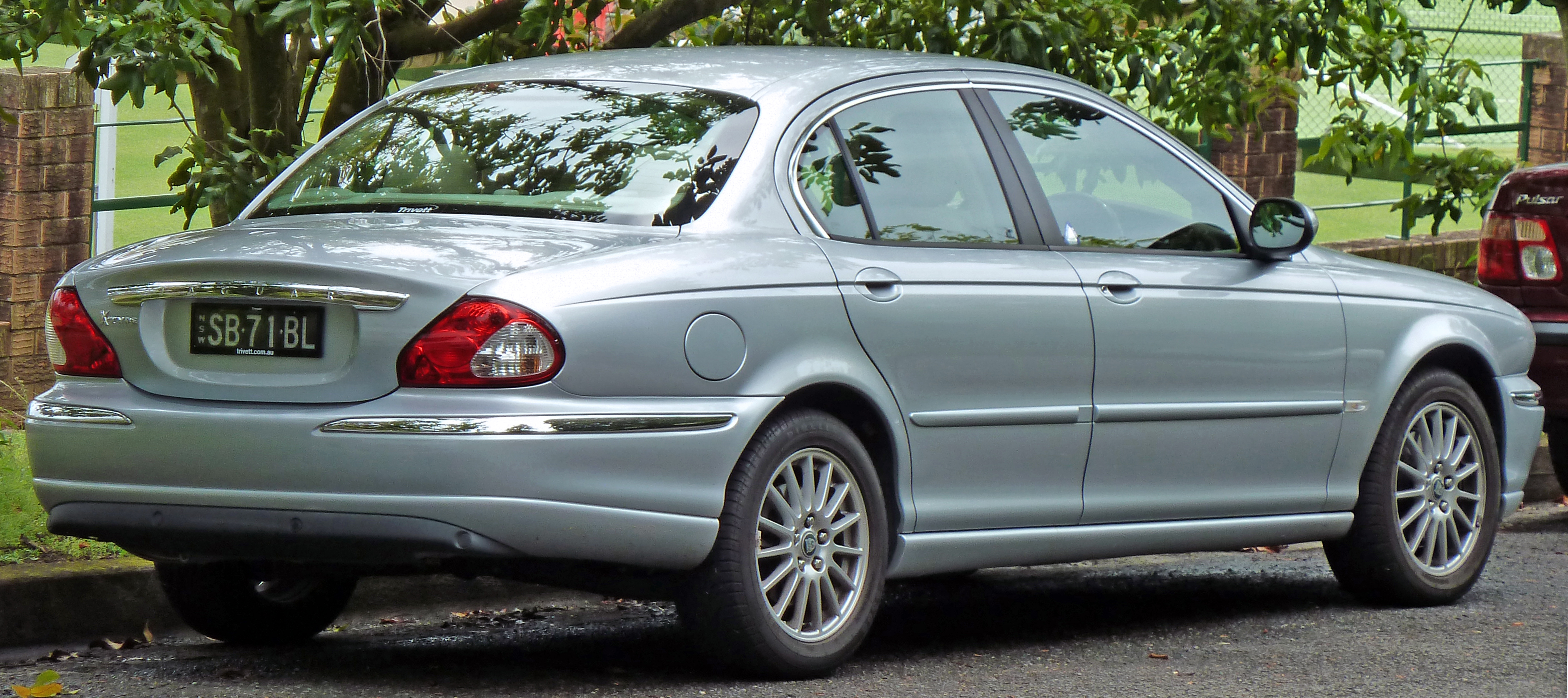 2006 Jaguar X-Type (X400) LE sedan. Photographed in Killara, New South Wales, Australia.